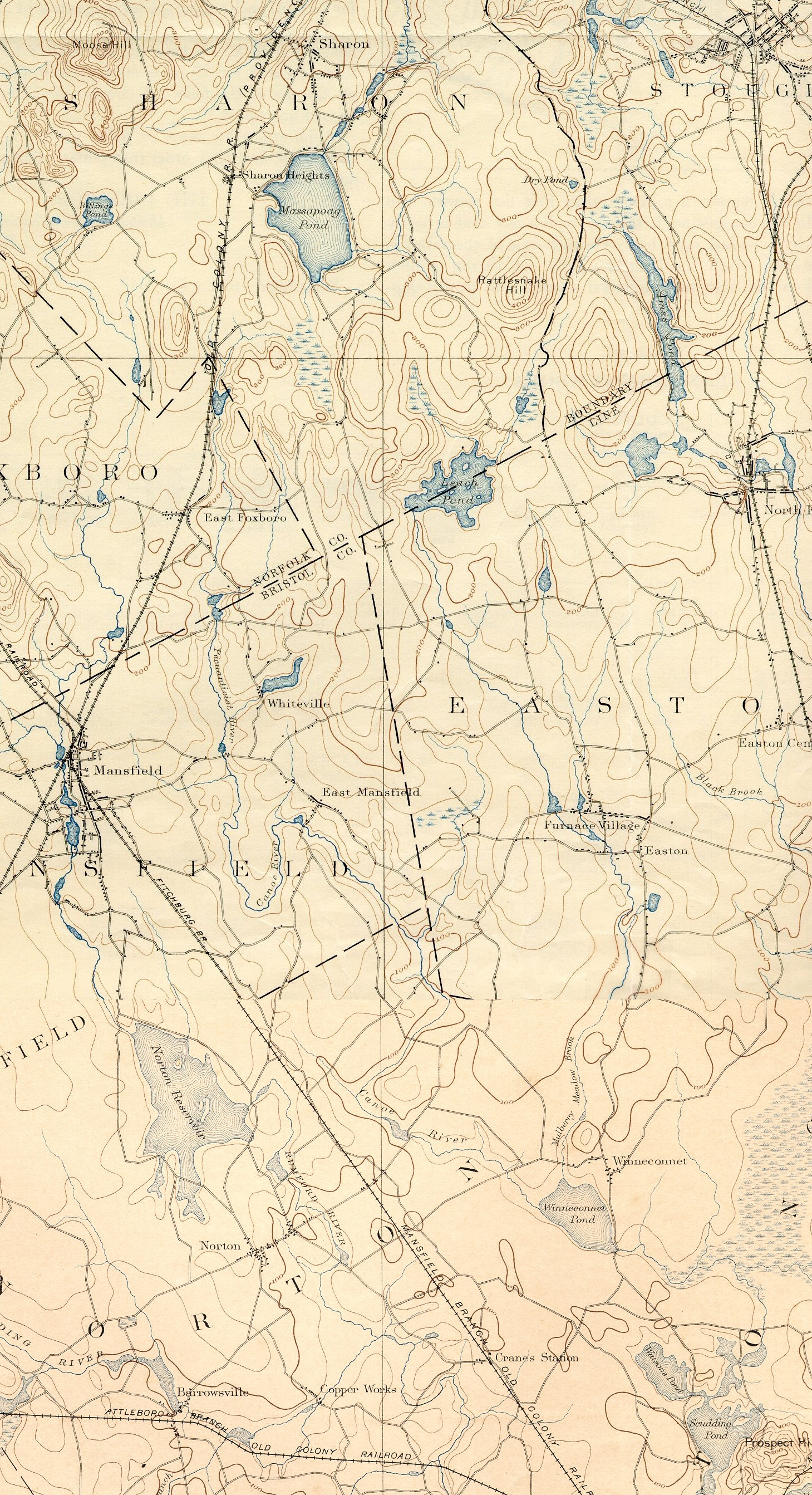 Map of the Canoe River (Massachusetts) and environs.